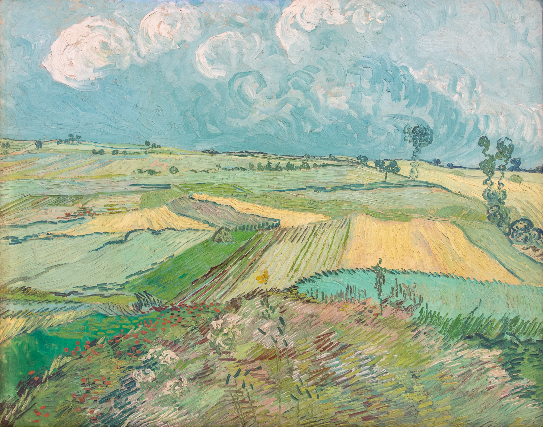 Photo of Vincent Van Goghs' Wheat Fields after the Rain (The Plain of Auvers)